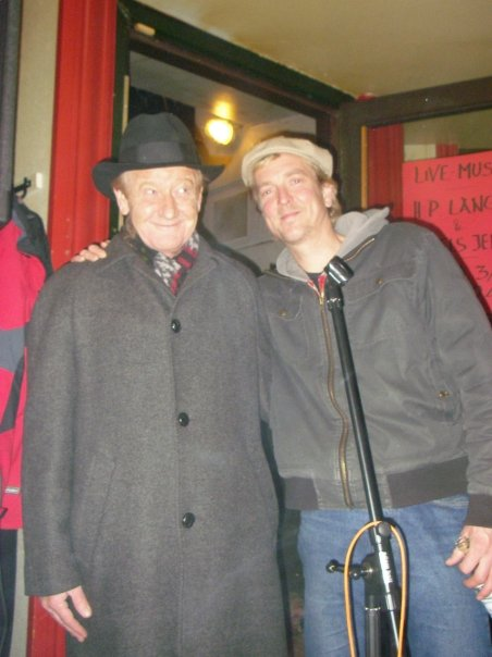 Troels Jensen, danish blues grand old man, and H.P. Lange king of roots